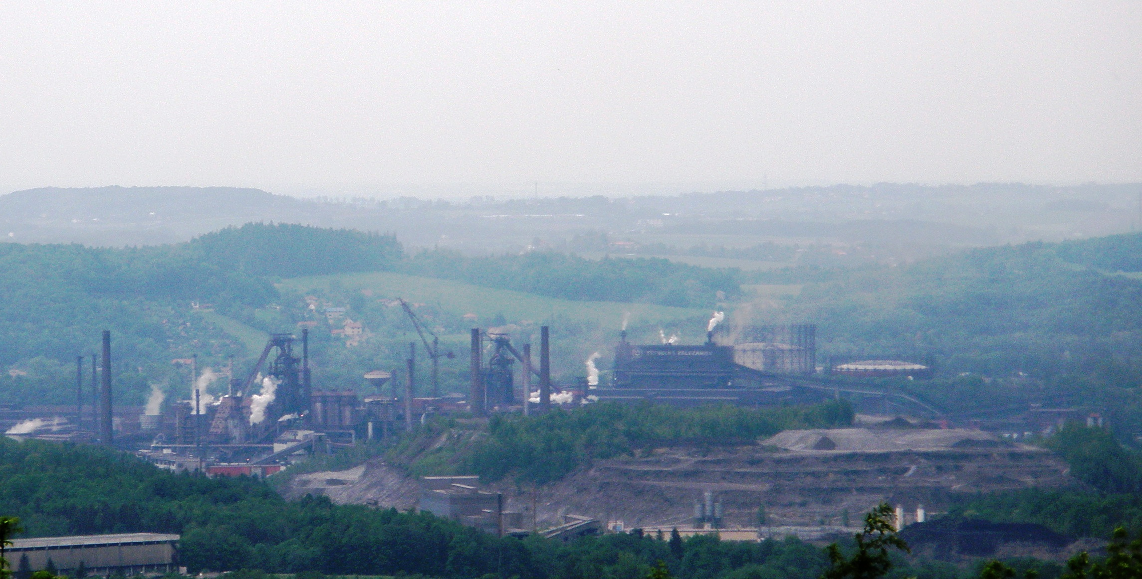 Třinec Iron and Steel Works (seen from Javorový Hill).